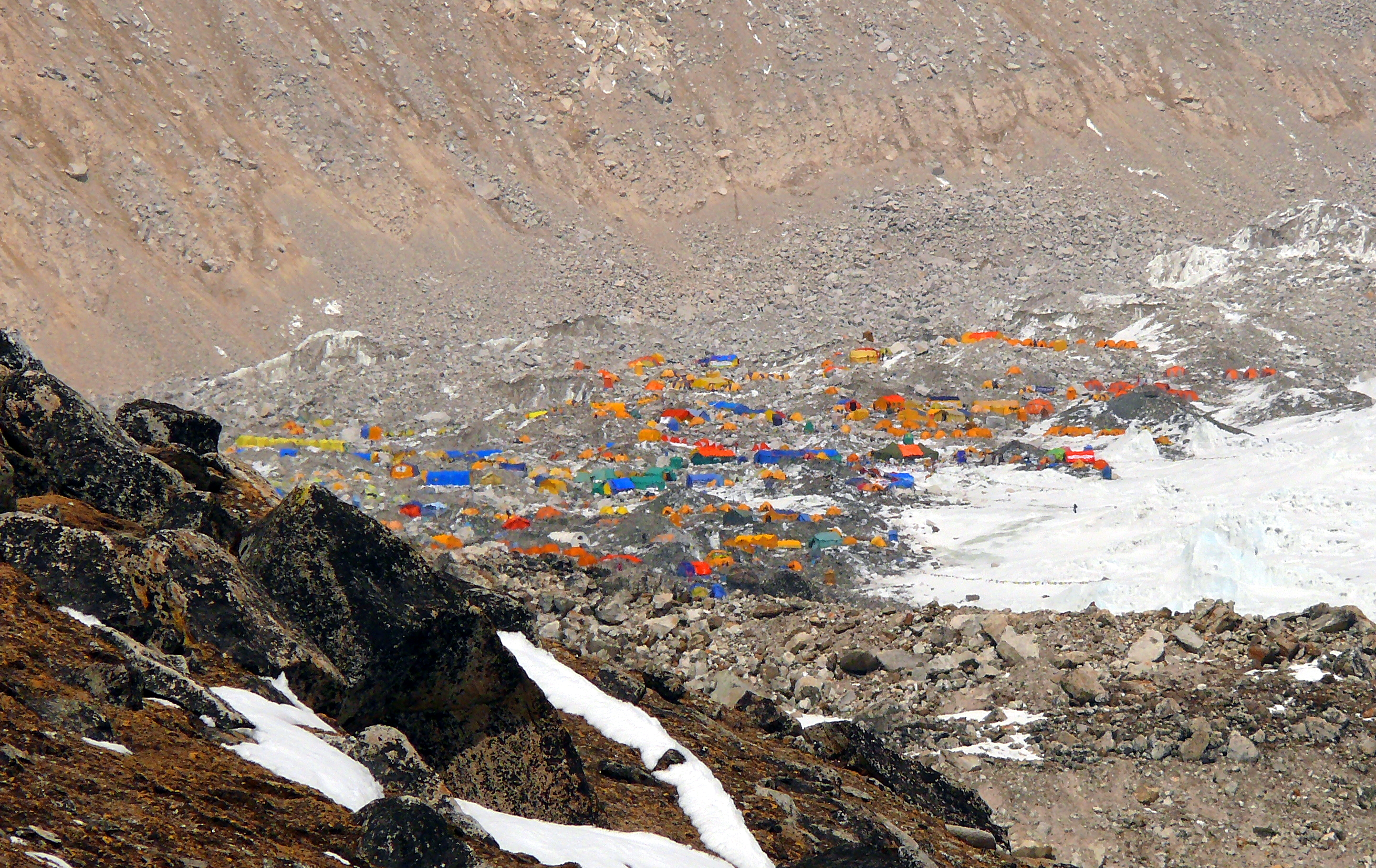 Everest Base Camp from Kala Patther